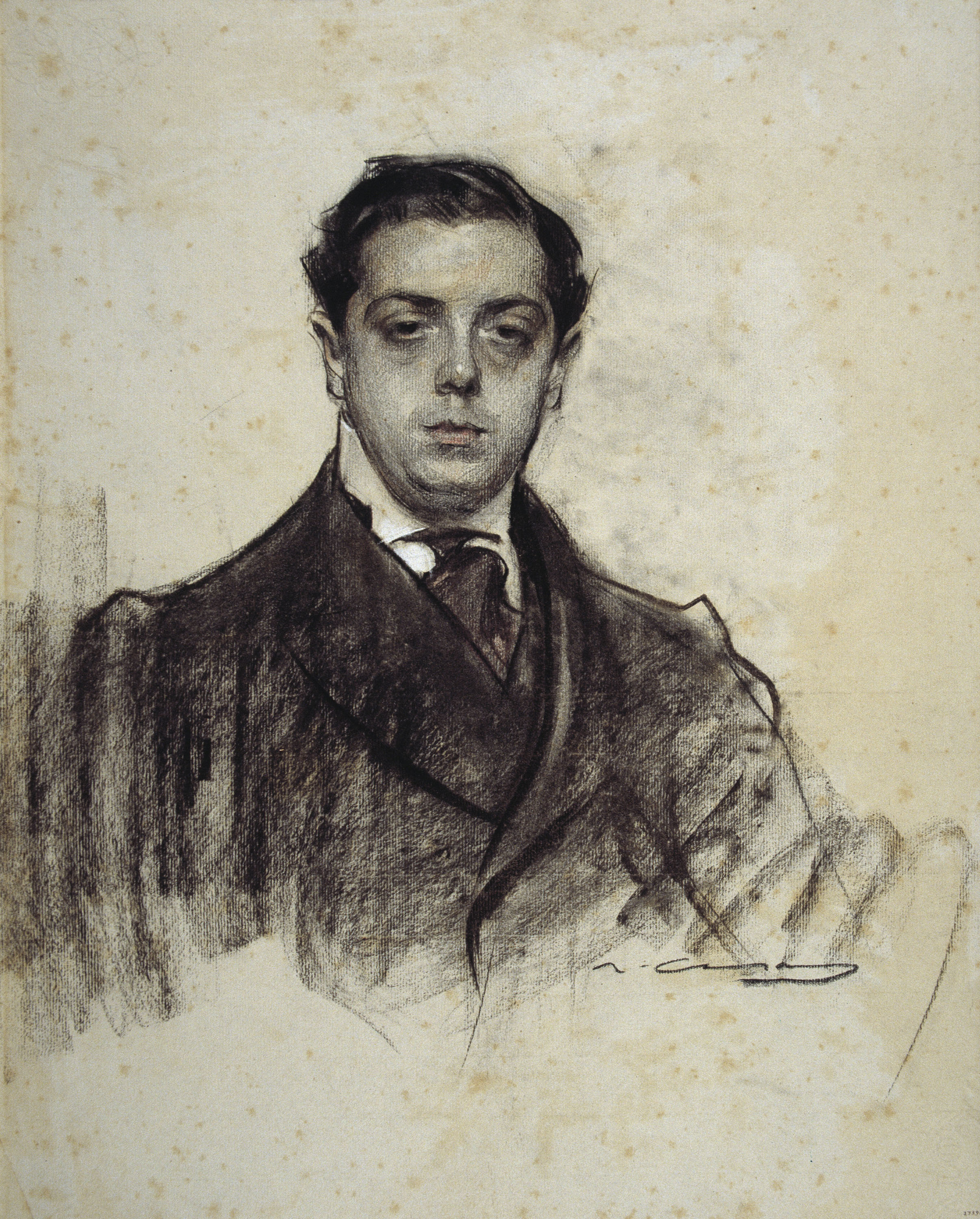 Portrait by Ramon Casas conserved at MNAC in Barcelona. Imagen 077